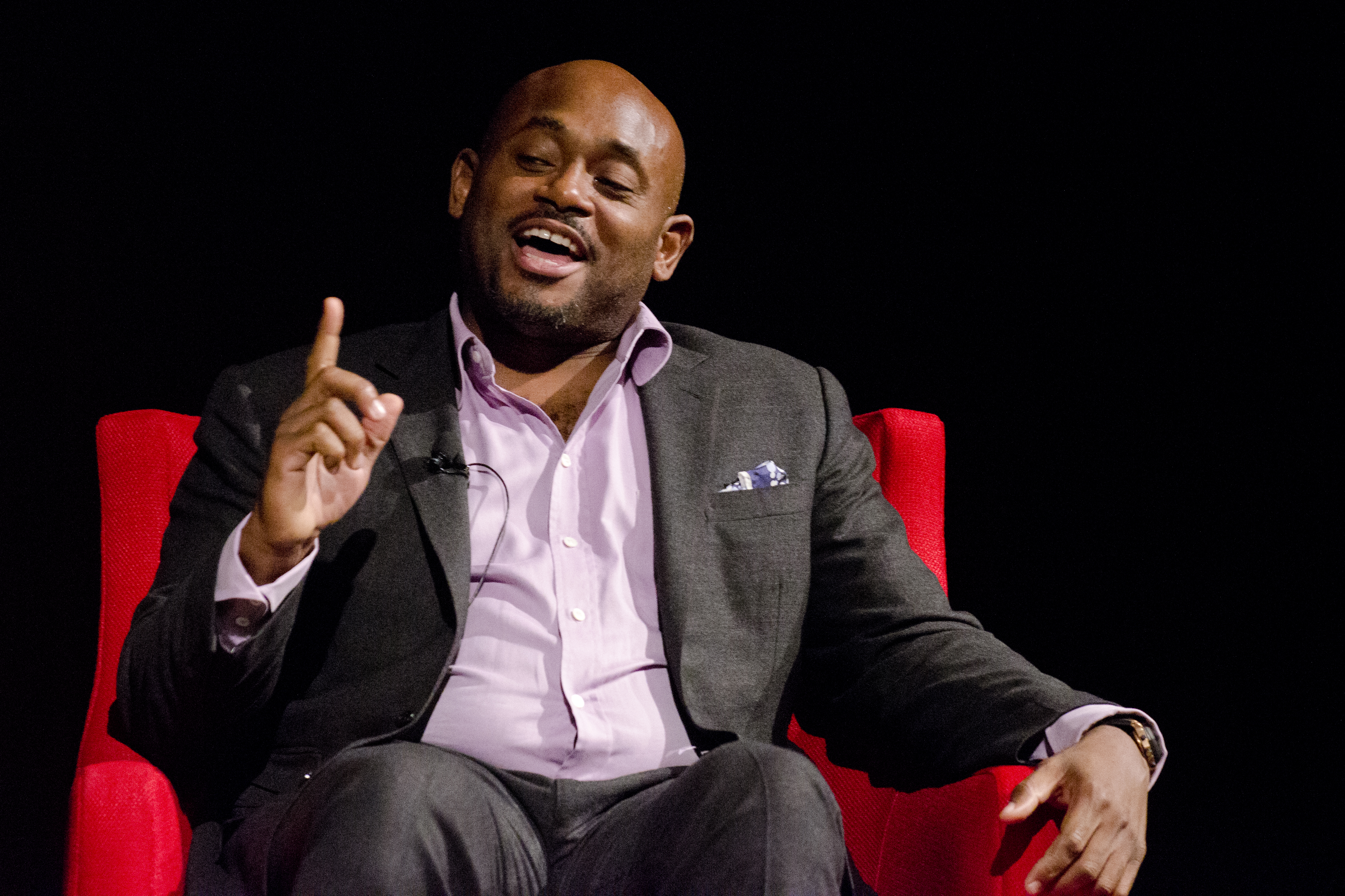 Steve Stoute, founder and CEO of Translation spoke at the panel on "Social Justice in the 21st Century: Empowering Minds, Changing Hearts and Inspiring Service." AUSTIN